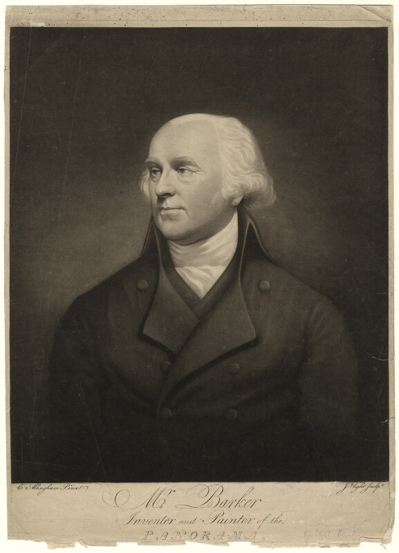 Robert Barker by J. Flight, after Charles Allingham mezzotint, before 1806